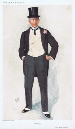 Caricature of Sir John Ainsworth Vanity Fair 7 Dec 1910. Caption read "Johnnie"